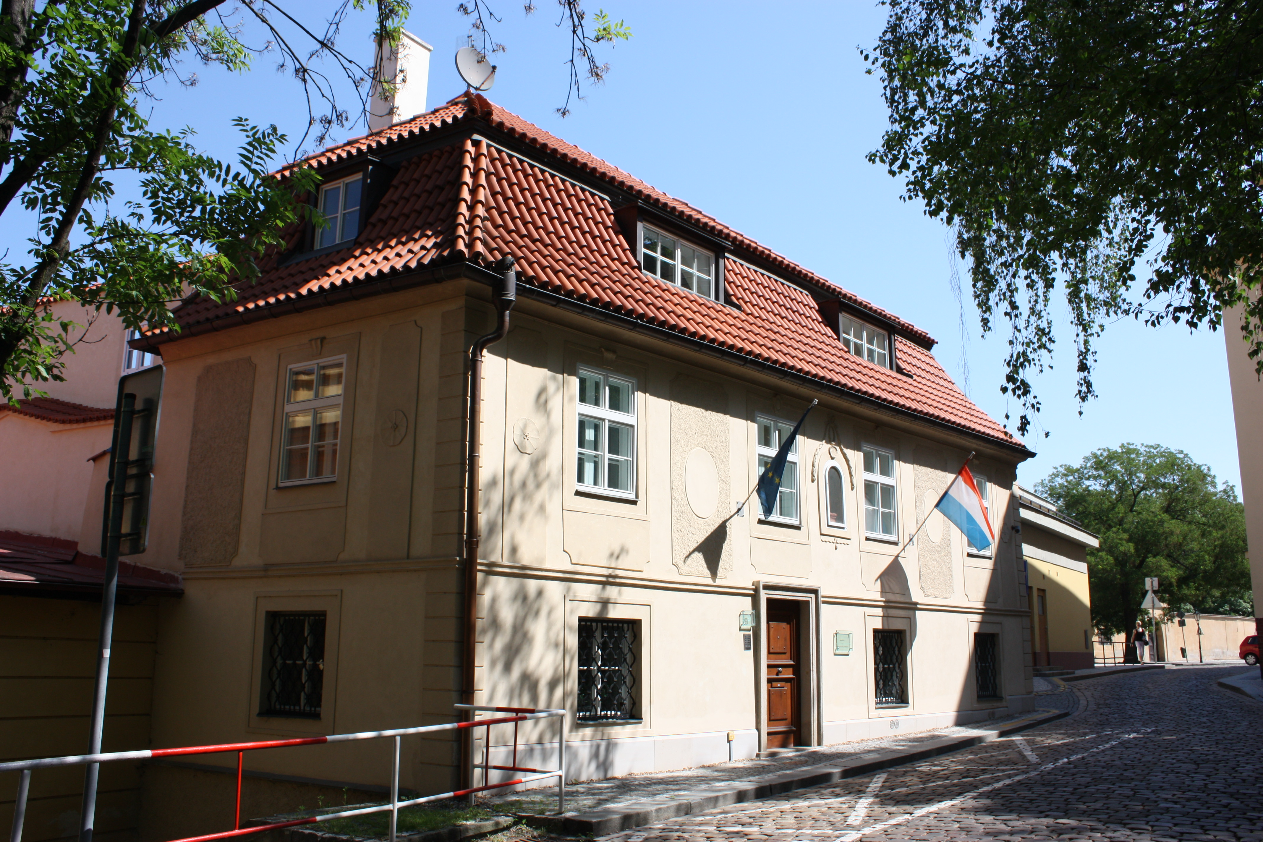 Embassy of Luxembourg, Apolinářská 439/9, Prague - New Town.